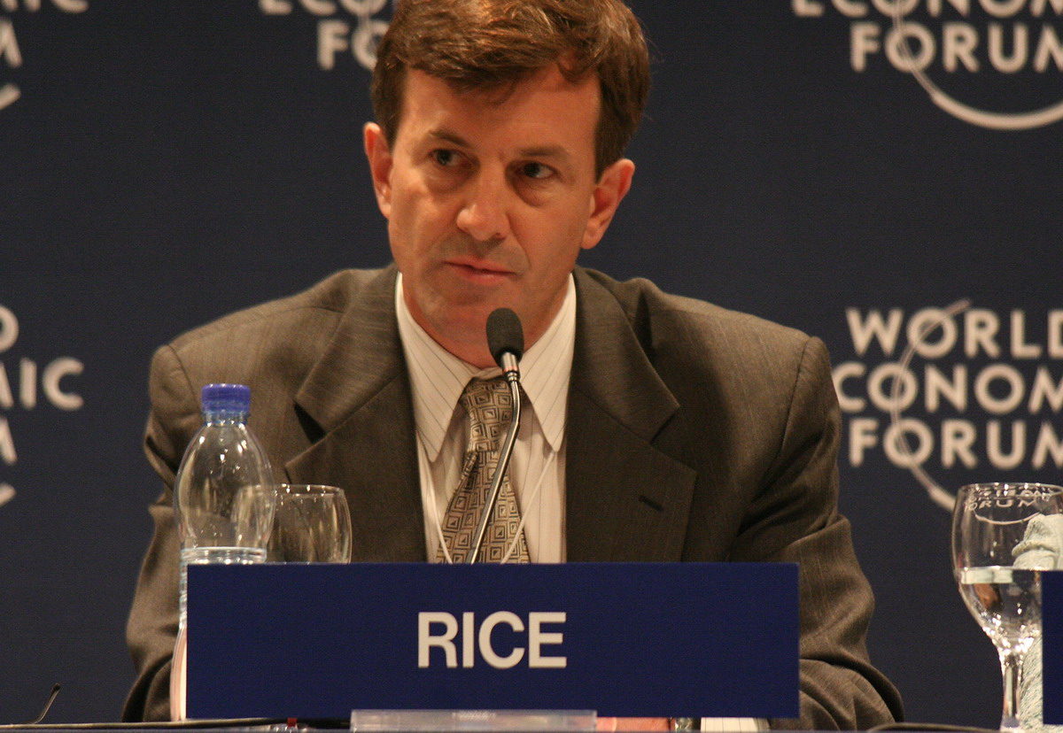 SHARM EL SHEIKH/EGYPT, 18MAY08 - Paul Rice, President and Chief Executive Officer, TransFair, USA; Social Entrepreneur captured during the Opening Plenary session "The Future of the Middle East" at the World Economic Forum on the Middle East 2008 held in Sharm El Sheikh, Egypt. Copyright World Economic Forum Watch this session on the World Economic Forum's YouTube channel.